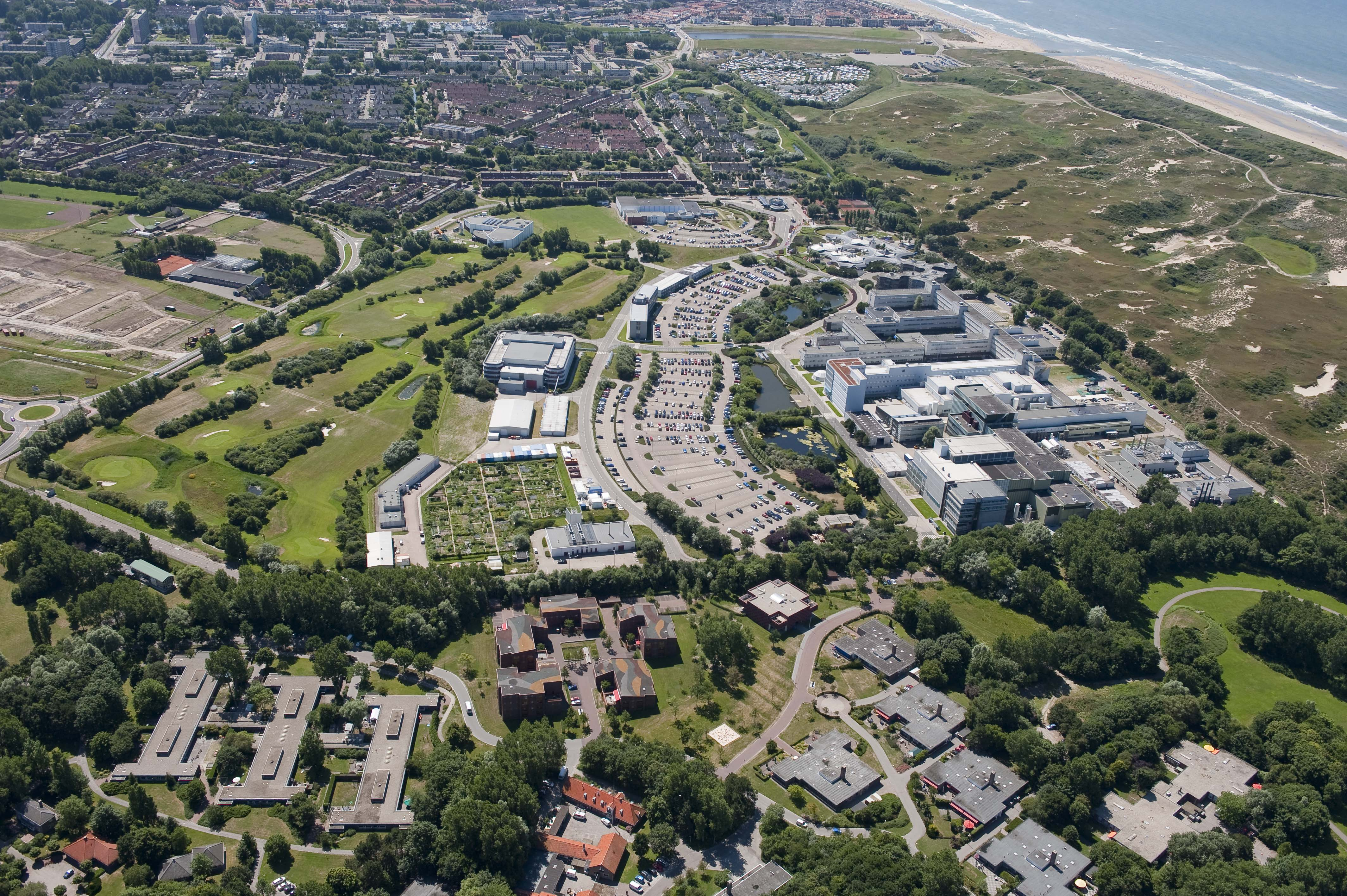 An aerial view of ESA's technical centre ESTEC in the Netherlands, photographed from the north from a Cessna during January 2016. In place for more than half a century, the ESTEC European Space Research and Technology Centre in Noordwijk on the North Sea coast is ESA’s largest establishment, focused on developing technology, planning missions and testing satellites. The hub of our continent’s space effort, this is where the majority of European space projects are born, developed and tested in advance of their flights into orbit.